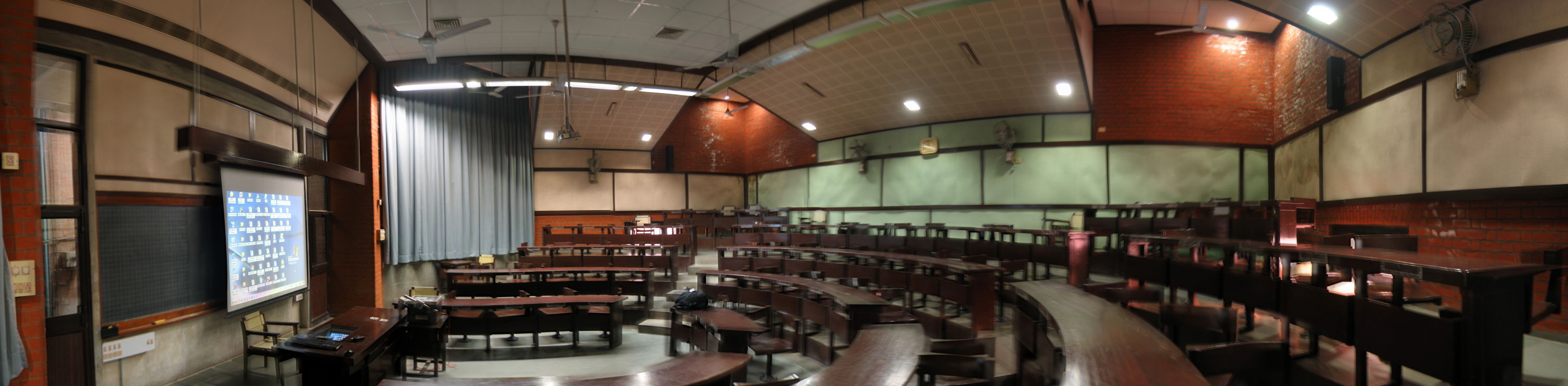 Panorama image from class room of old campus at the Indian Institute of Management, Ahmedabad, Gujarat, India. Combined with Autostich, camera model Canon Powershot A80 This panoramic image was created with Autostitch. Stitched images may differ from reality.